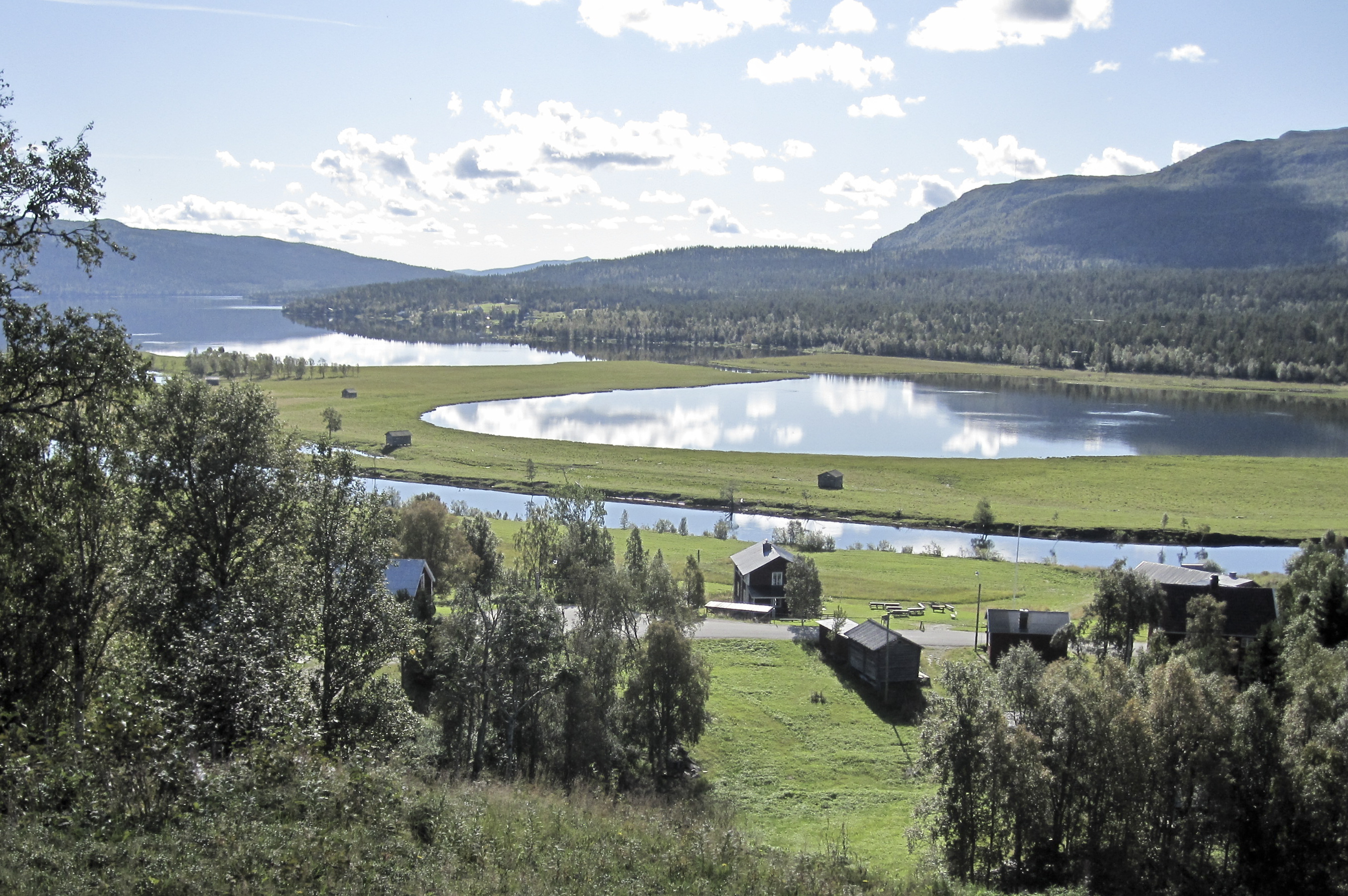 Ammarnäs, Sorsele, Sweden.